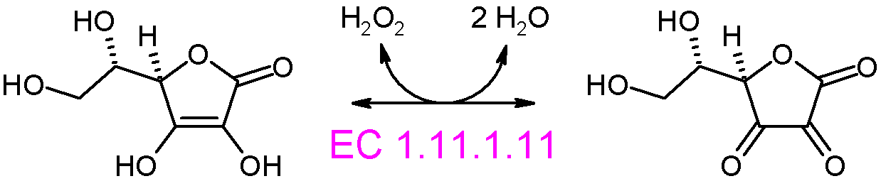 Ascorbate_peroxidase_reaction